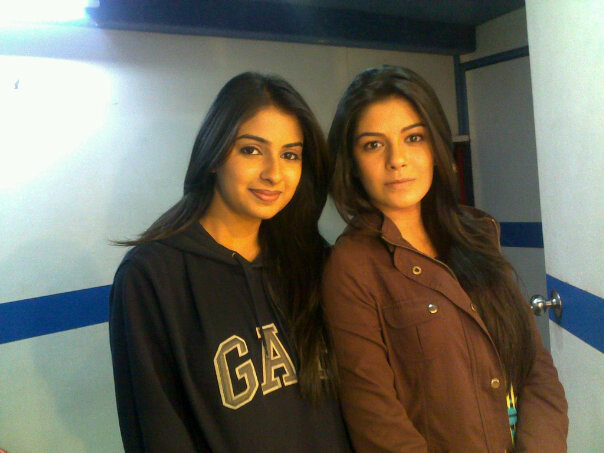 Actress Avantica Hundal (left) and Pooja Gor (right) after shooting in backstage.